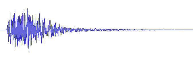 Waveform of orchestra hit generated in Roland's Virtual Sound Canvas (VSC3)